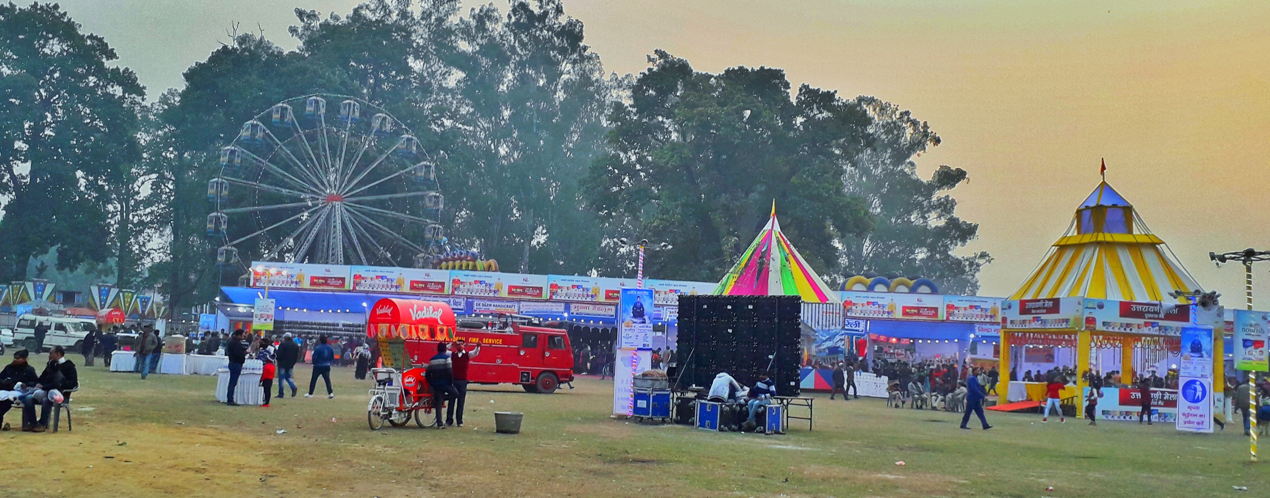 Uttarayani Fair, Bareilly, 2019